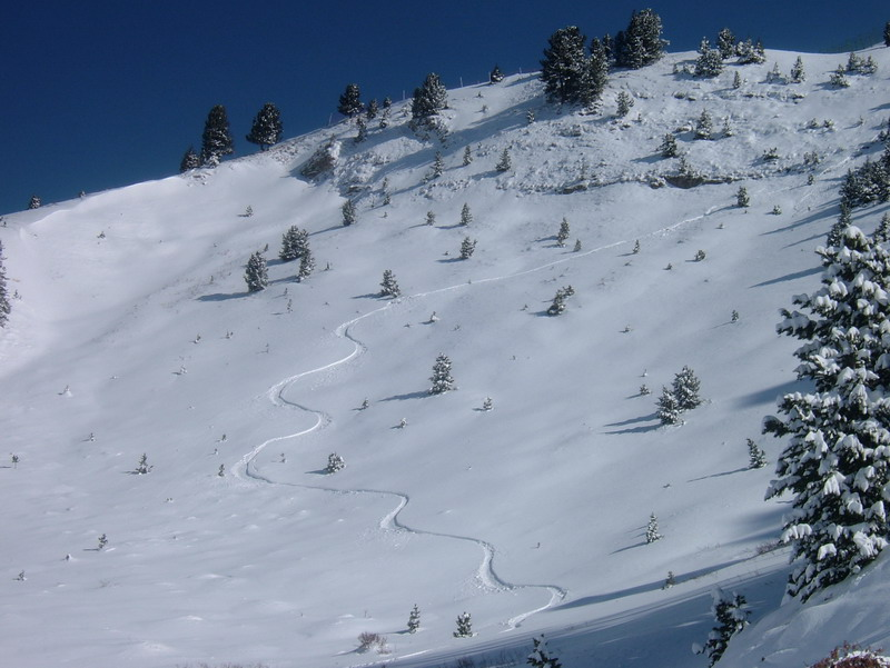 Snowboardist print.